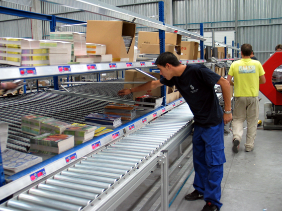 pick to light picking system order fulfillment